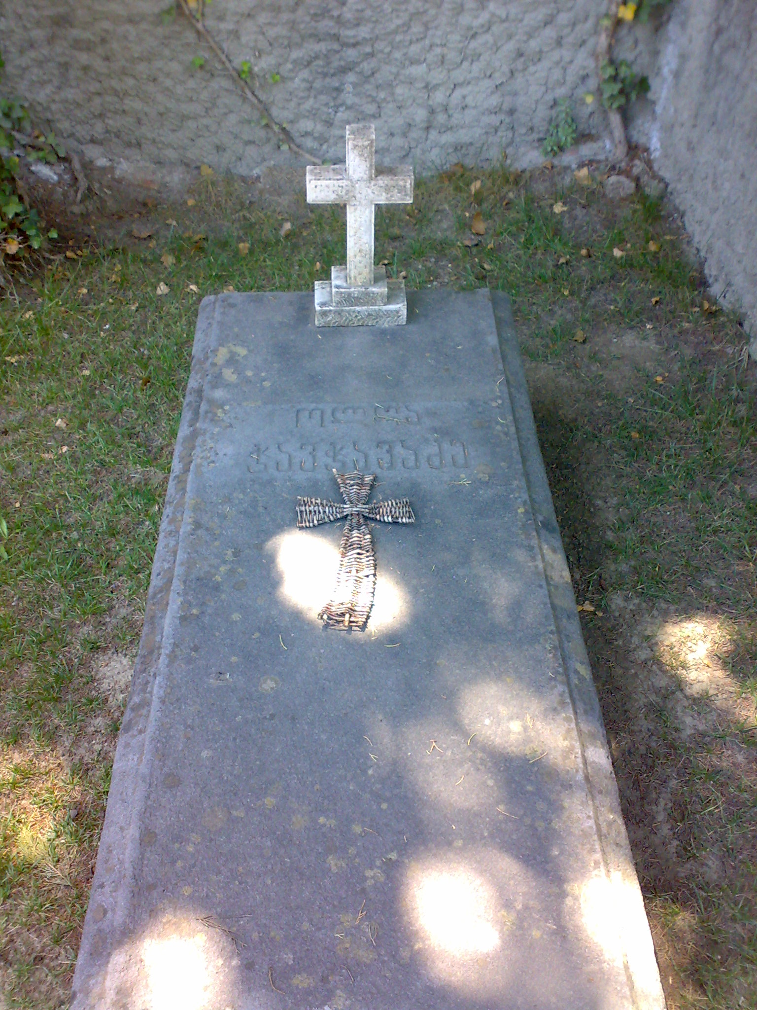 Grave of Olga Chavchavadze